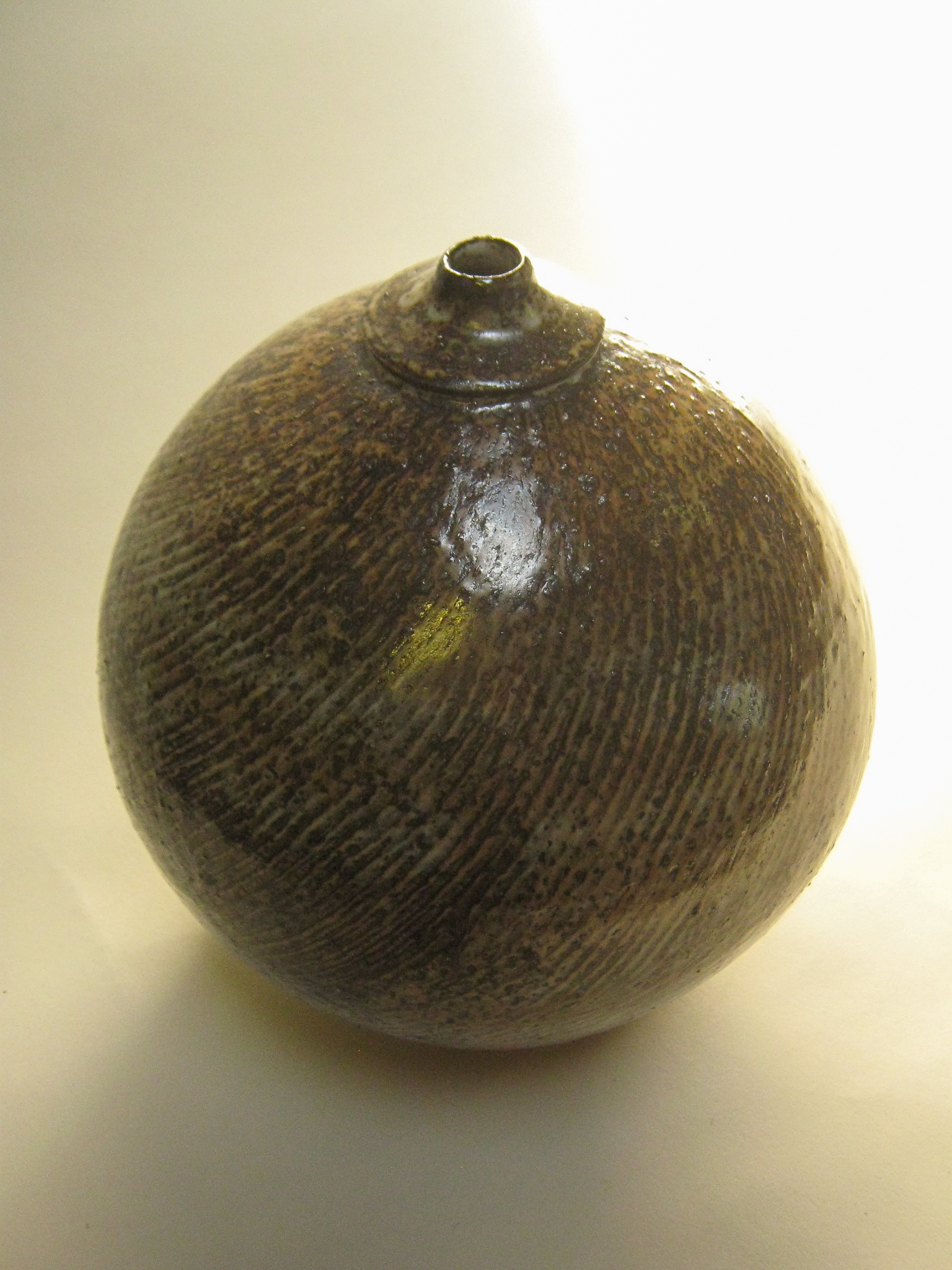 Rope-textured pottery bottle by Tatsuzo Shimaoka in the collection of Ian Sprague; photographed in a private collection at Enfield Victoria